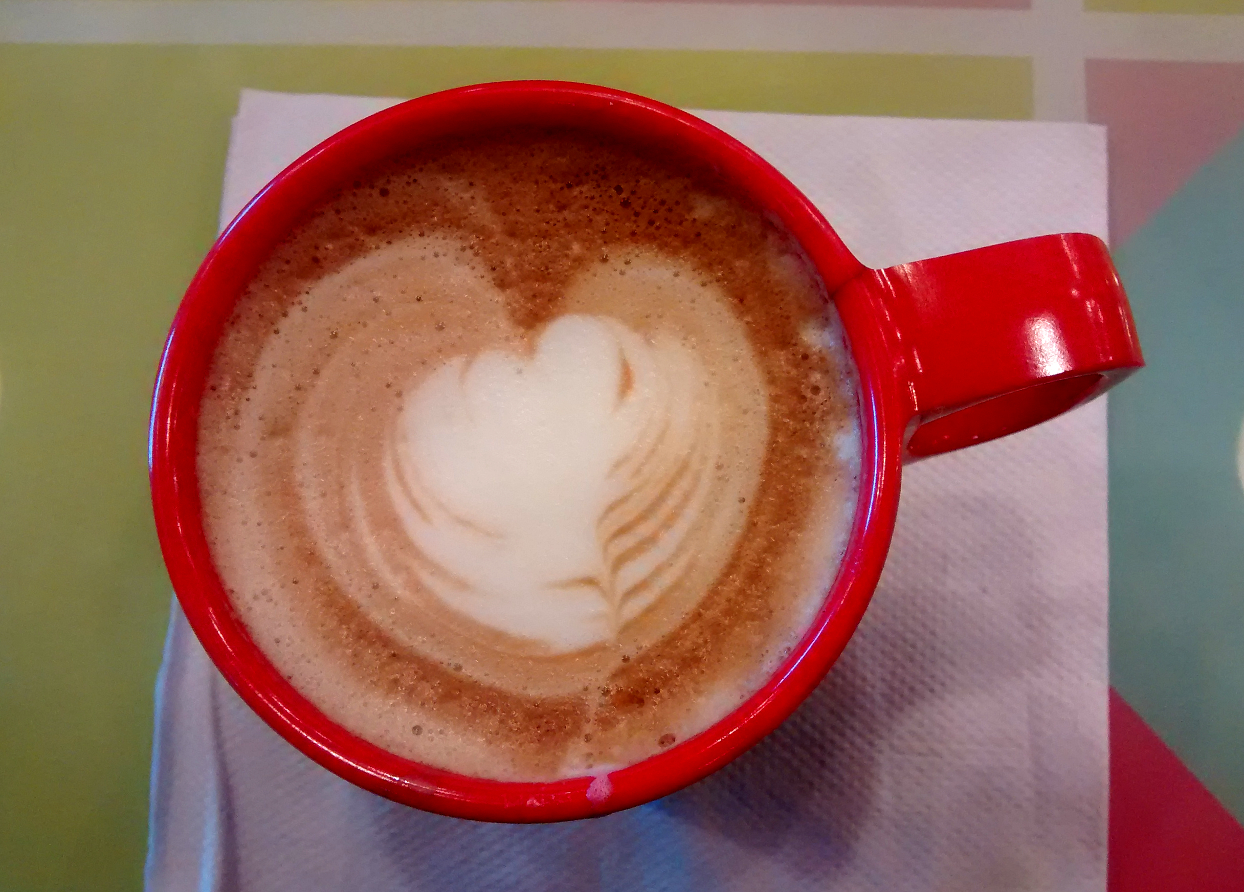 Cappuchino from India.